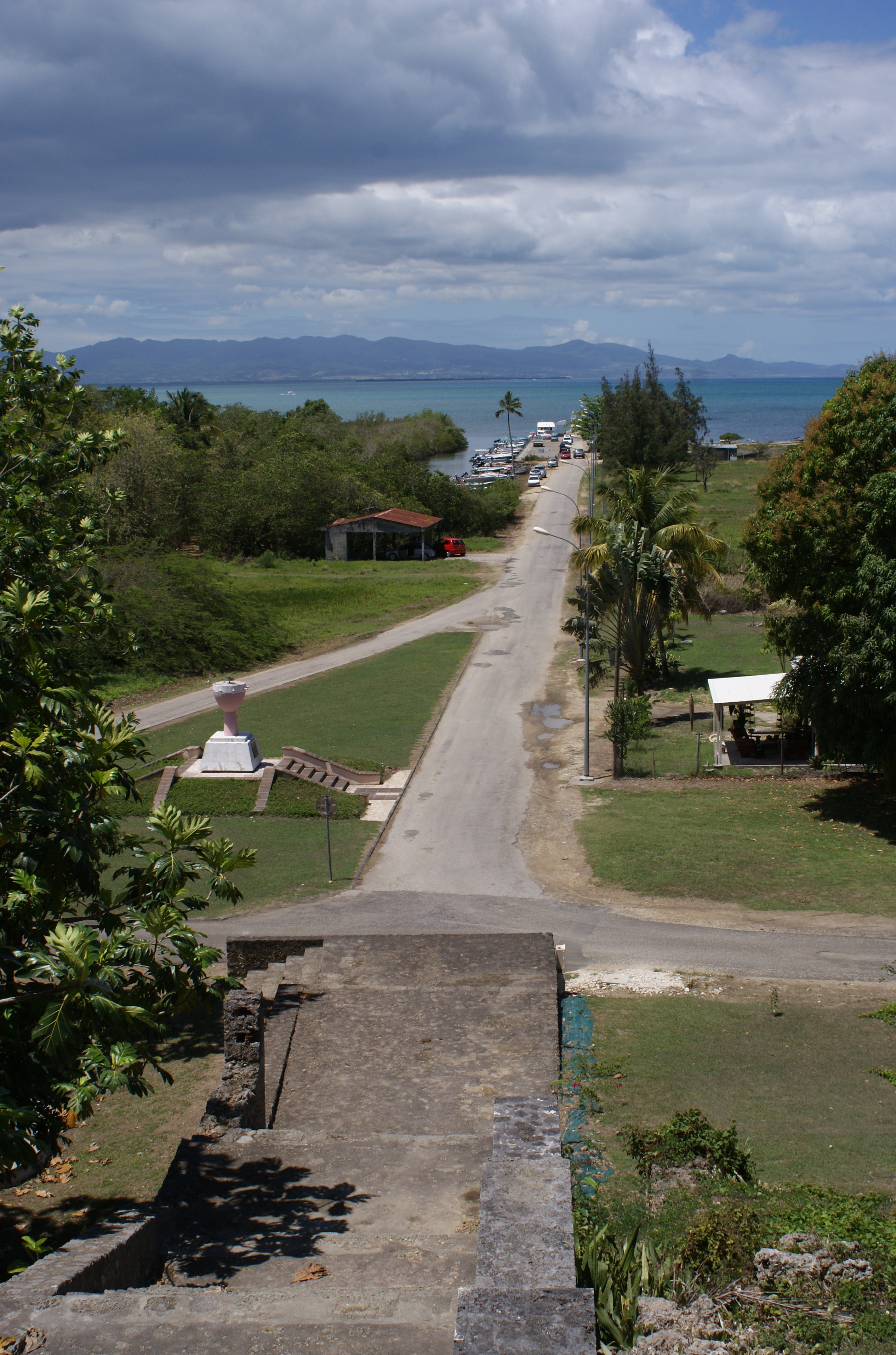 View down the stairway of the slaves (Les Marches des Esclaves) in Petit-Canal, Grande-Terre, Guadeloupe